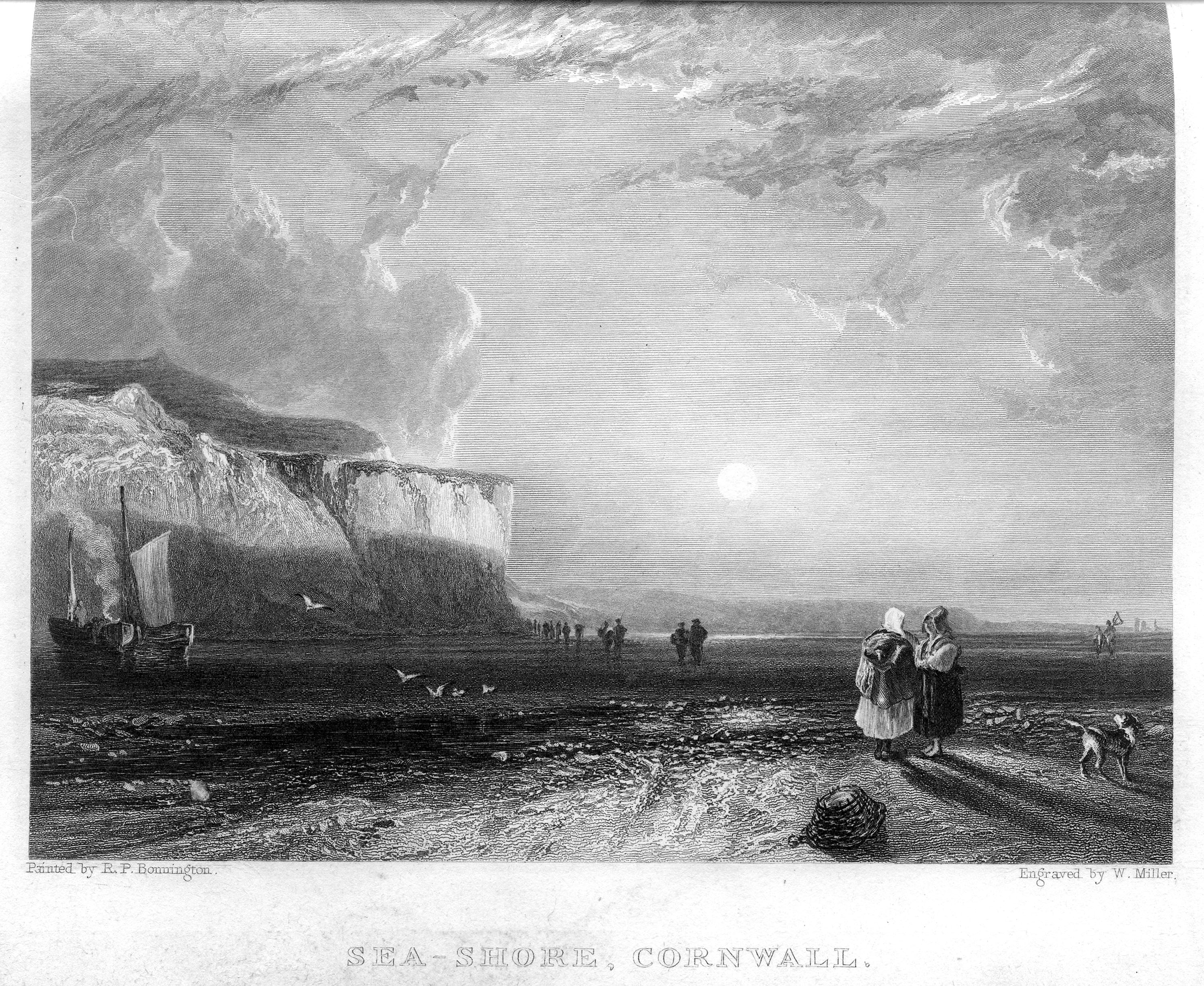 The Seashore, Cornwall engraving by William Miller after R P Bonington (Miller paid £52-10-0 in ix 1830), published in The Keepsake for MDCCCXXXI, Reynolds, Frederic Mansel. London: Longman, Rees, Orme, Brown and Green, 1831